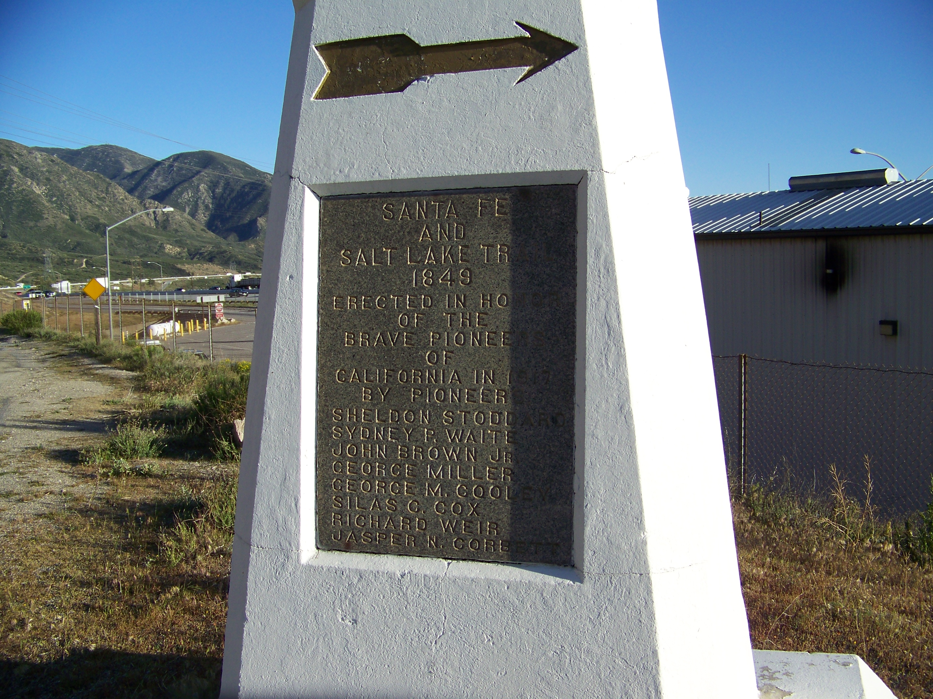 Santa Fe and Salt Lake Trail Monument